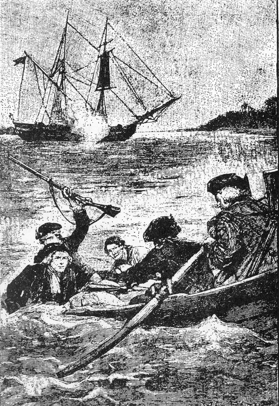 The Hispanola firing at the landing-party with Doctor Livesey and Squire Trelawney Illustration by Walter Paget for the 1899 edition of "Treasure Island" by Robert Louis Stevenson